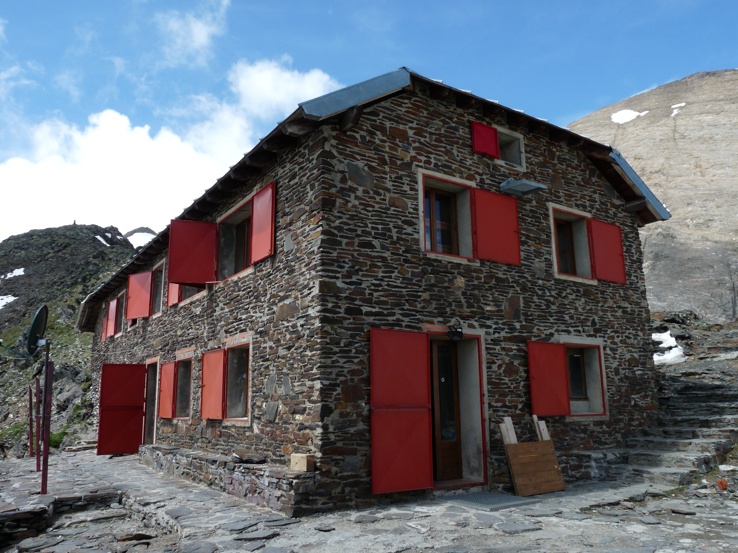 Uno dei due edifici del rifugio 3A.